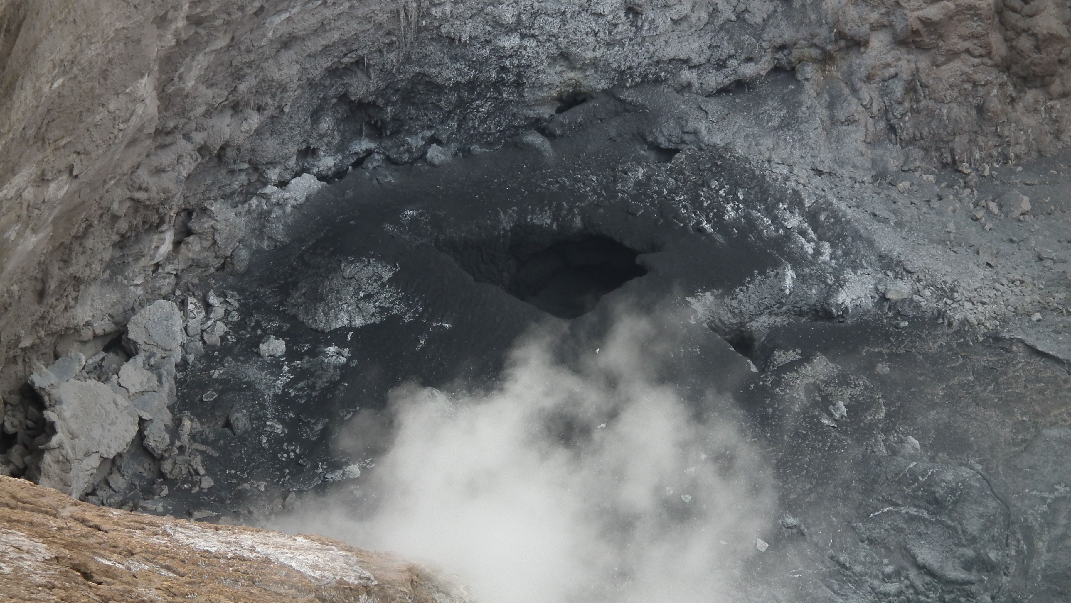 Lava hole of Ol Doinyo Lengai, Tansania.